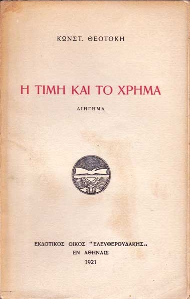 Cover page of Konstantinos Theotokis' novella Honor and money, 2nd edition, Eleftheroudakis, Athens 1921.